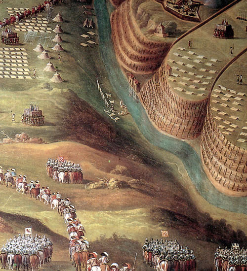 Siege_de_Privas_1640_Nicolas_Prevost